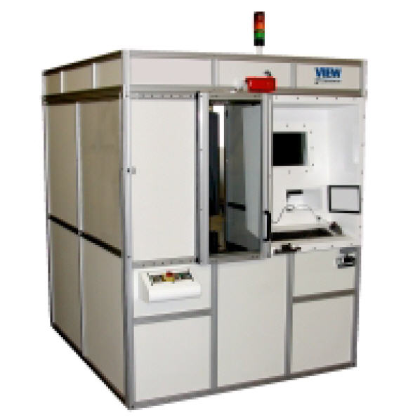 A VIEW Engineering, Inc. automated, shaft-measurement system for factory floor use in automotive assembly plants.